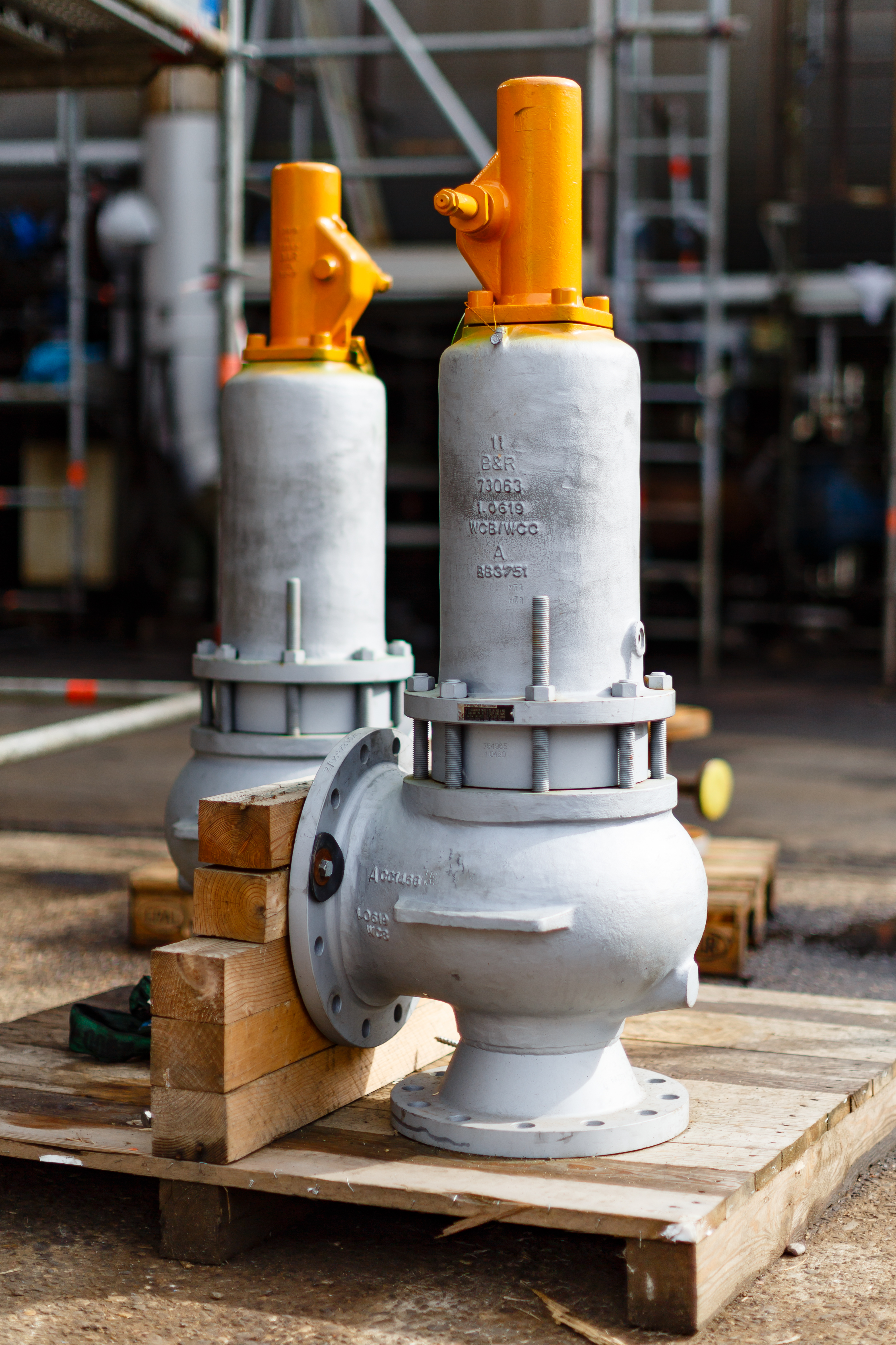 Cologne, Germany: Bopp & Reuther Safety Relief Valves, mounted on a transport pallet